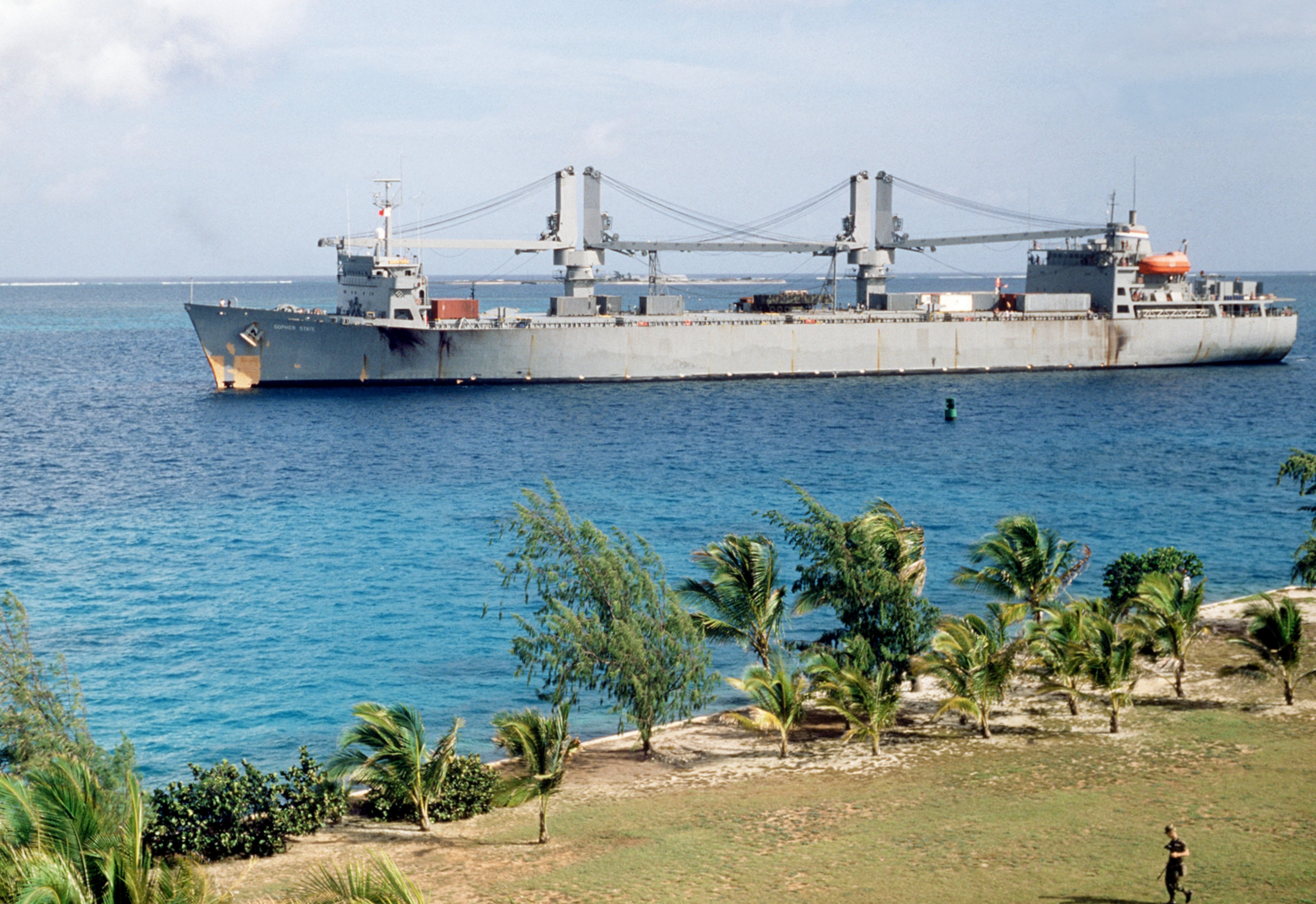 The U.S. Military Sealift Command auxiliary crane ship SS Flickertail State (T-ACS-5) as the ship arrives at Johnston Atoll during "Operation Steel Box". The ship was delivering chemical munitions to the U.S. Army Johnston Atoll Chemical Agent Disposal System for storage and disposal. "Operation Steel Box", also known as "Operation Golden Python", was a 1990 joint U.S.-West German operation which moved 100,000 U.S. chemical weapons from Germany to Johnston Atoll.